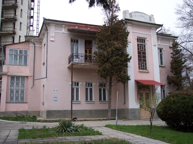 House where Ulianov's (Lenin) Family stayed in 1911-1914, Generala Gorbacheva St., 5, Feodosia, Crimea, Ukraine